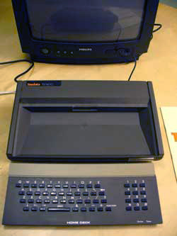 Tandata Td1400 Prestel terminal as supplied by the Nottingham Building Society for its home banking service. The picture shows the remote keyboard and docking station, which was connected to a television and phone line.